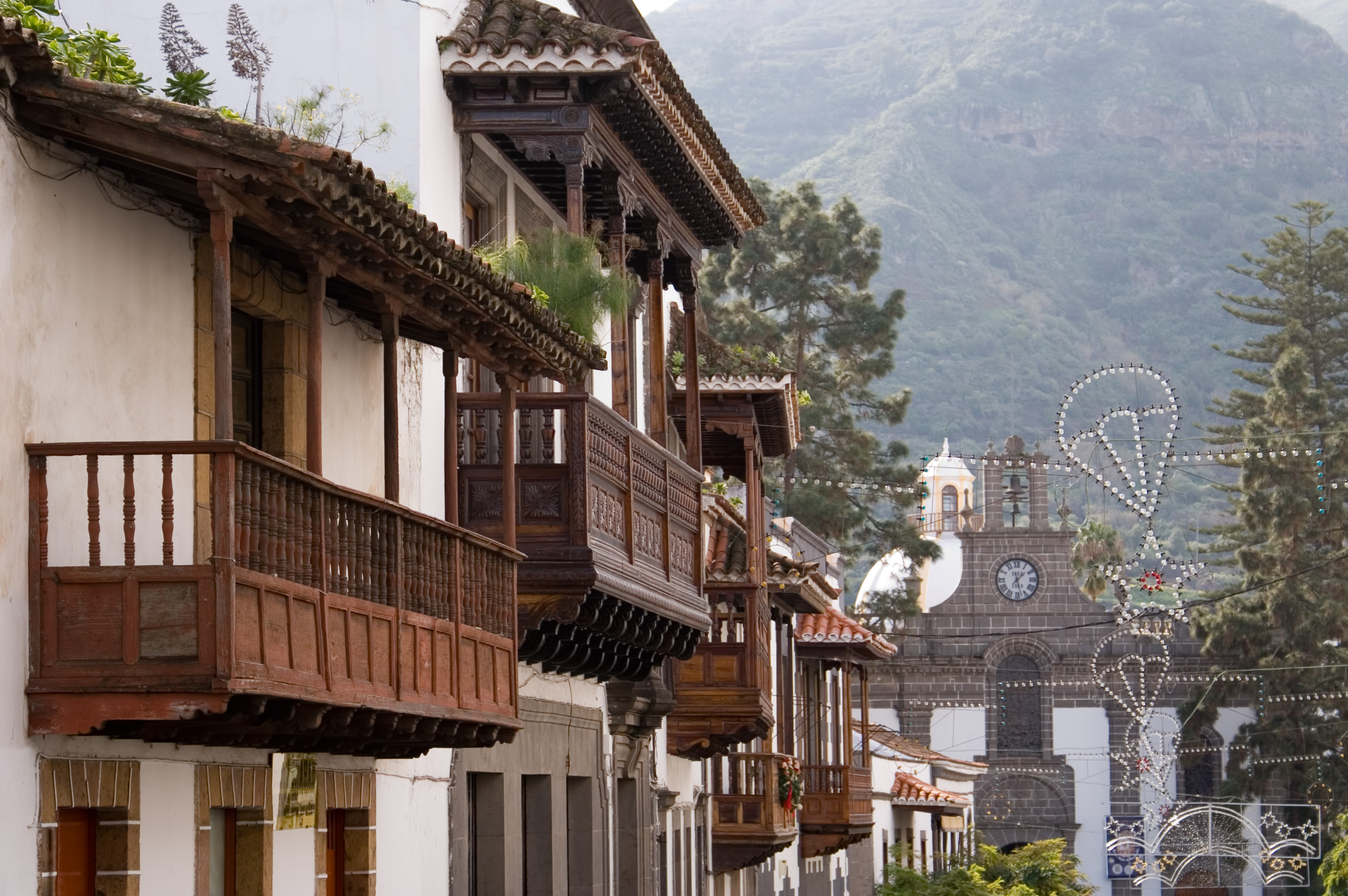 Balconies in Teror, Gran Canaria (Canary Islands, Spain) Quelle: selbst fotografiert Fotograf/Zeichner: Guido Haeger (eMail: wikipedia [ a t ] haeger [ d o t ] de) Datum: Dezember 2005